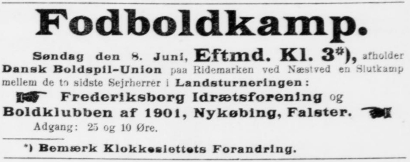 Advertisement for the final of Danish Provincial Football Championship in 1913 - The text reads: Fodboldkamp. Søndag den 8. Juni, Eftmd. Kl. 3*), afholder Dansk Boldspil-Union paa Ridemarken ved Næstved en Slutkamp mellem de to sidste Sejrherrer i Landsturneringen : Frederiksborg Idrætsforening og Boldklubben af 1901, Nykøbing, Falster. Adgang: 25 og 10 Øre. *) Bemærk Klokkeslettets Forandring.